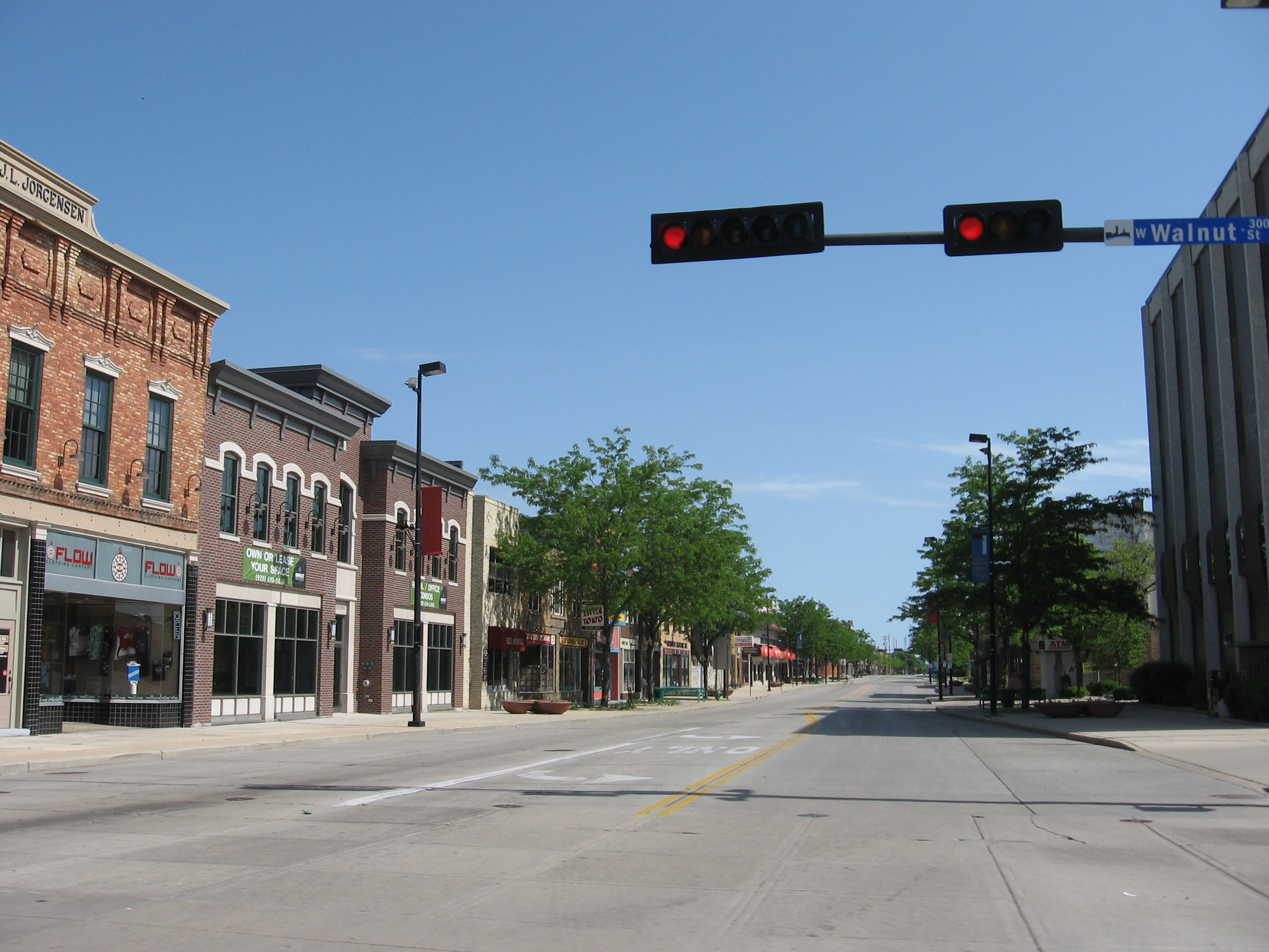 The Broadway District, Green Bay, WI. Corner of N. Broadway and W. Walnut St. Looking north along Broadway.